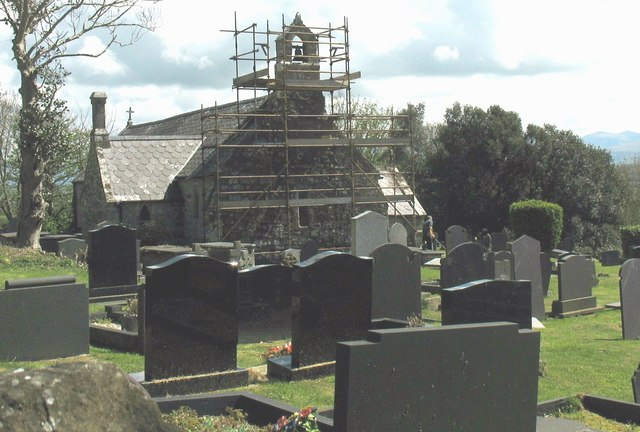 Eglwys St Beuno Church, Trefdraeth. This rural church building dates back to the 13th and 14th centuries, but it occupies a Christian site many hundreds of years older. It was restored in Victorian times. This is one of two churches in the parish of Trefdraeth, the other being the Church of Christ the King at Malltraeth, which began life as a mission hall for coal miners. 255222